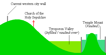 Basic cross-section of Jerusalem showing Church of the Holy Sepulchre, Tyropoeon Valley, Temple_Mount and old city walls. Also showing artificial platform for the temple mount (in turquoise), and valley infill/bridges/etc. (olive). Heights based on this contour map - [1], along the horizontal line from the words 'Temple Mount'. Vertical scale may have been accidentally stretched in relation to horizontal scale.